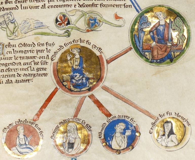 Edmund II of England and his family (Edward the Exile, Edgar the Ætheling, Saint Margaret of Scotland, Edmund , Cristina)